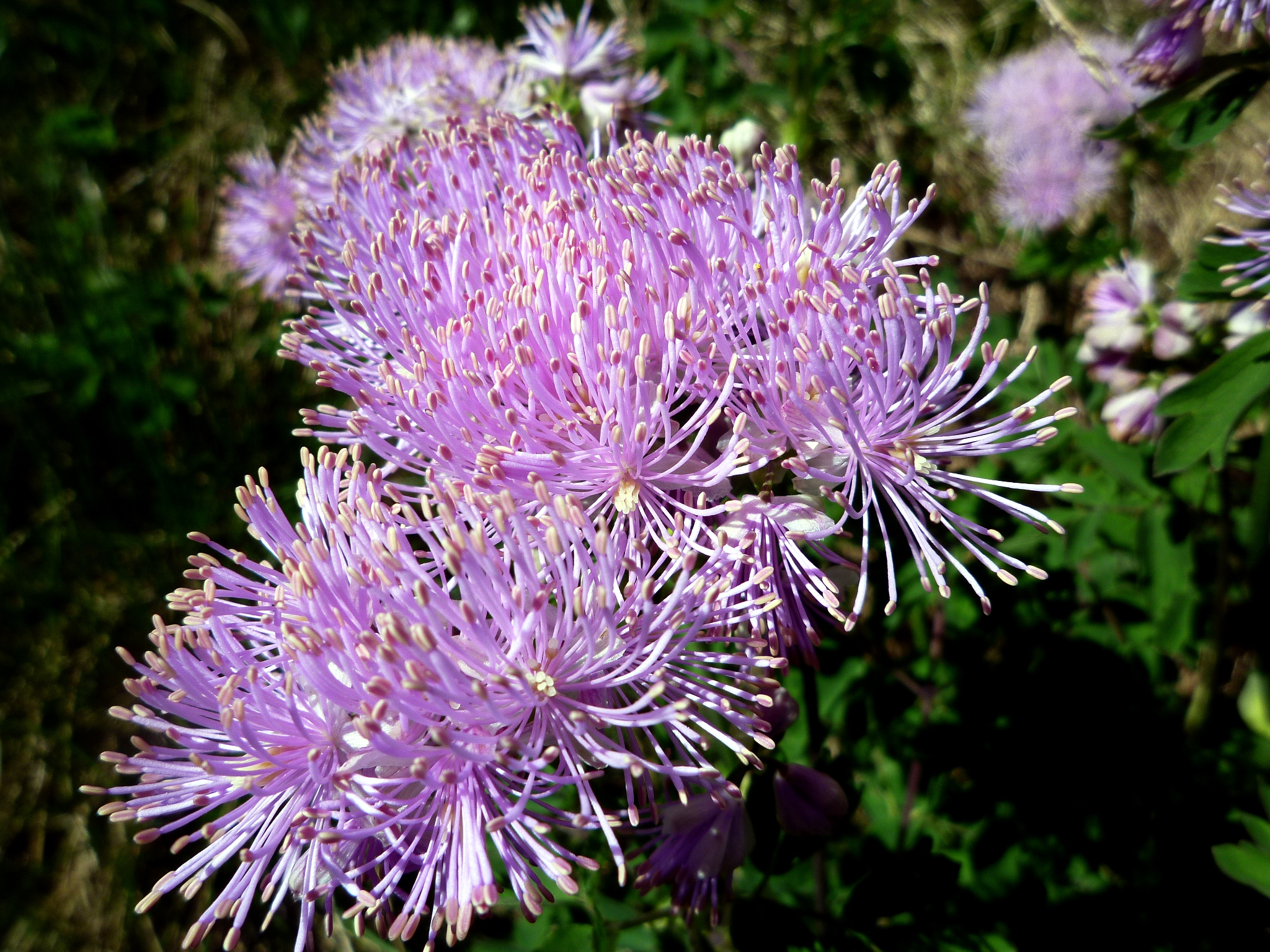 Thalictrum aquilegiifolium. Near Estany Fosser (Pallars Jussà - Catalunya). To 2.230 m d'alçada